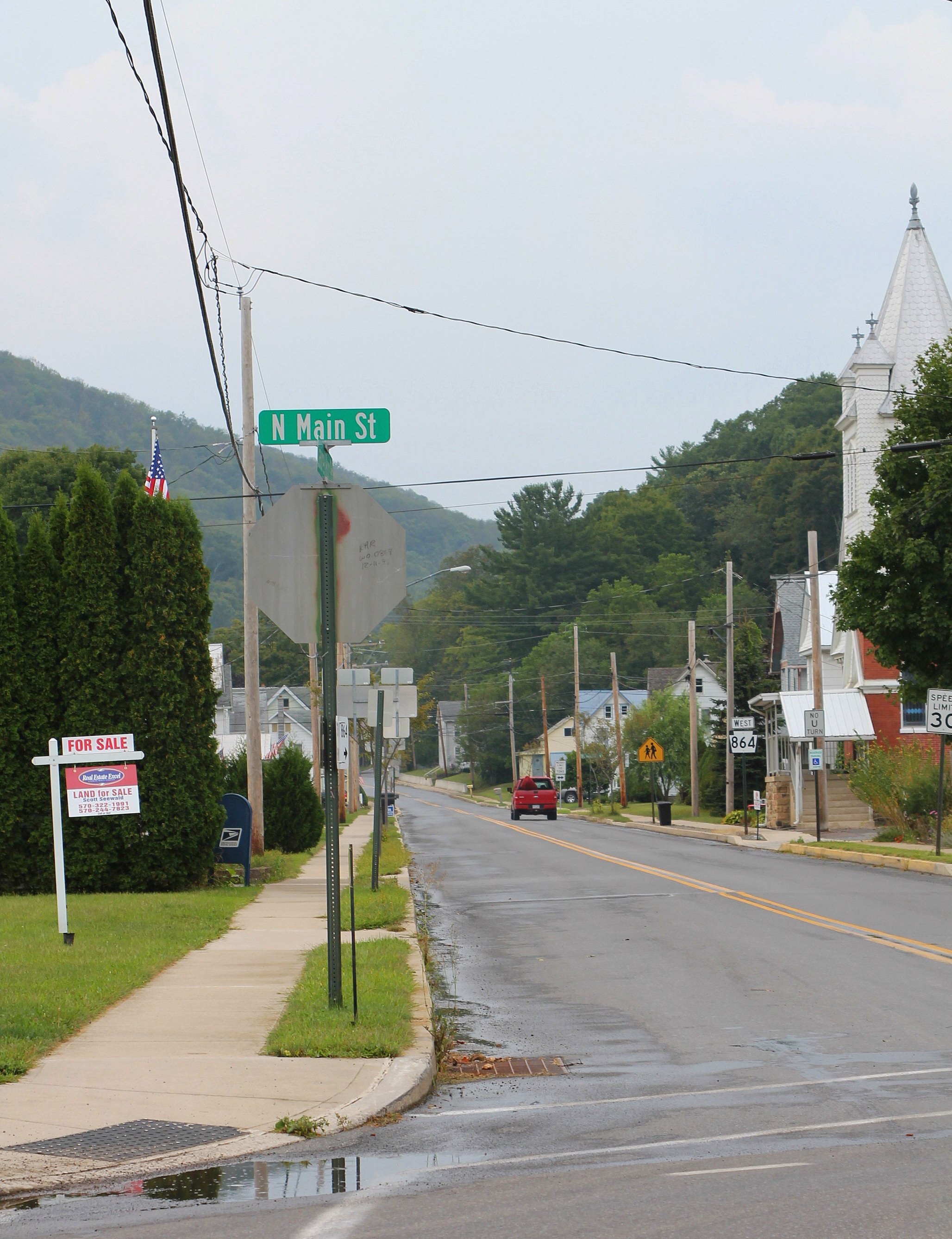 Pennsylvania Route 864 in Picture Rocks